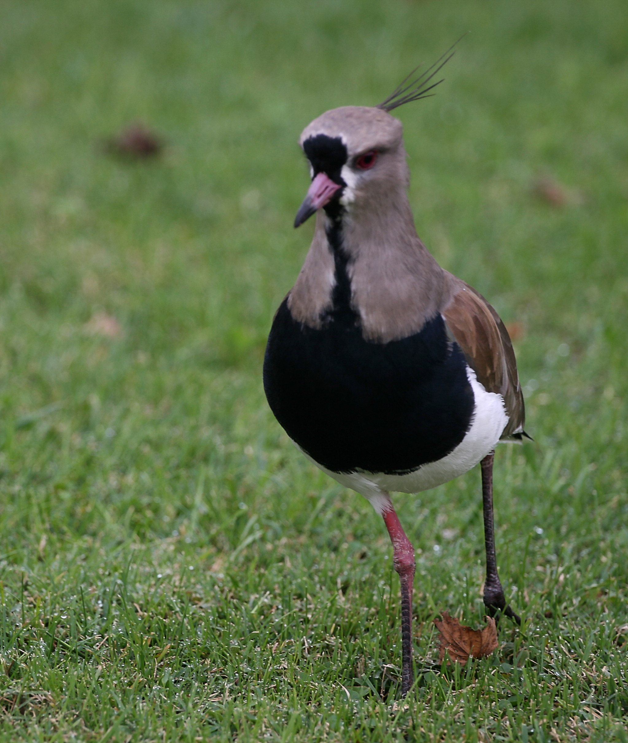 Southern Lapwing at Temaikén Zoo, Argentina.